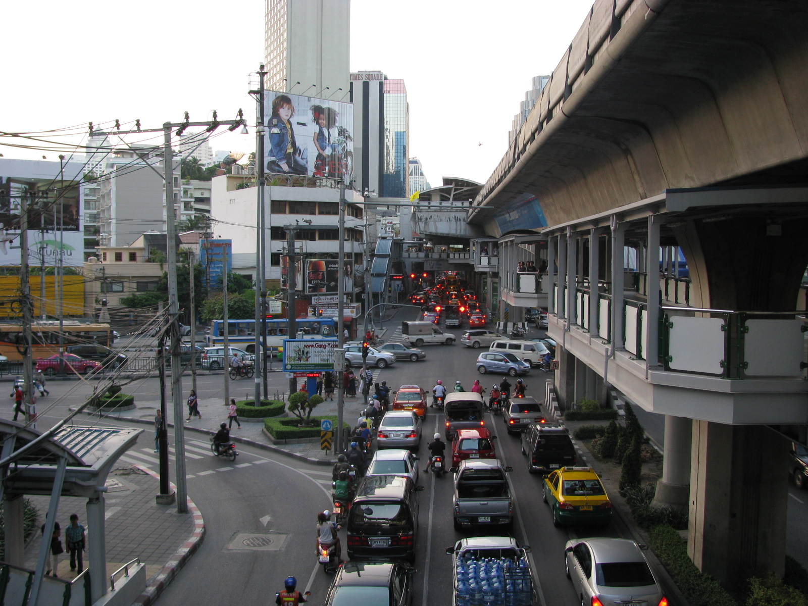 The Sukhumvit Road, junction with Ratchadaphisek Road. This place is located in Watthana, Bangkok, Thailand.